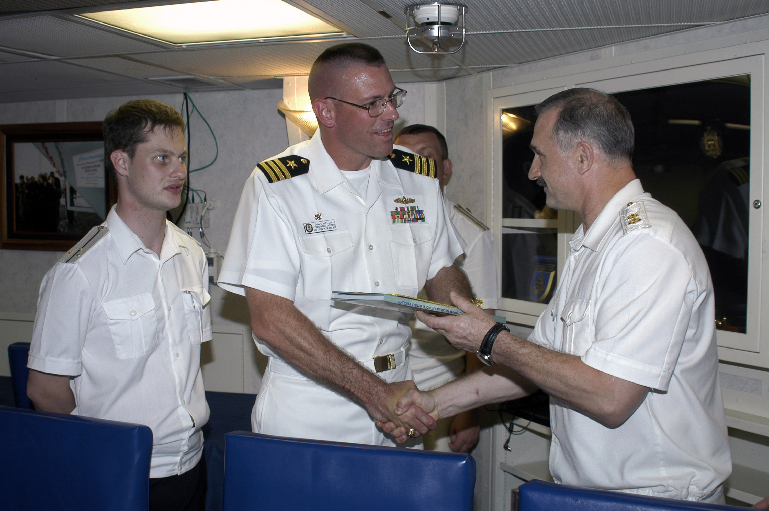 Santa Rita, Guam (March 27, 2006) - Chief of Staff/First Deputy Commander of the Pacific Fleet of the Russian Federation Navy, Vice Adm. Konstantin Sidenko, presents a Russian Pacific Fleet photo book to USS Chung-Hoon (DDG 93) Commanding Officer, Cmdr. Dave Welch, after a tour aboard the guided-missile destroyer. Four RFN ships and two U.S. Navy ships participated in passing exercise (PASSEX) 2006, off the coast of Guam. PASSEX is an exercise designed to increase interoperability between the two navies, while enhancing the strong cooperative relationship between Russia and the United States. U.S. Navy photo Photographer’s Mate 2nd Class Mark Allen Leonesio (RELEASED)